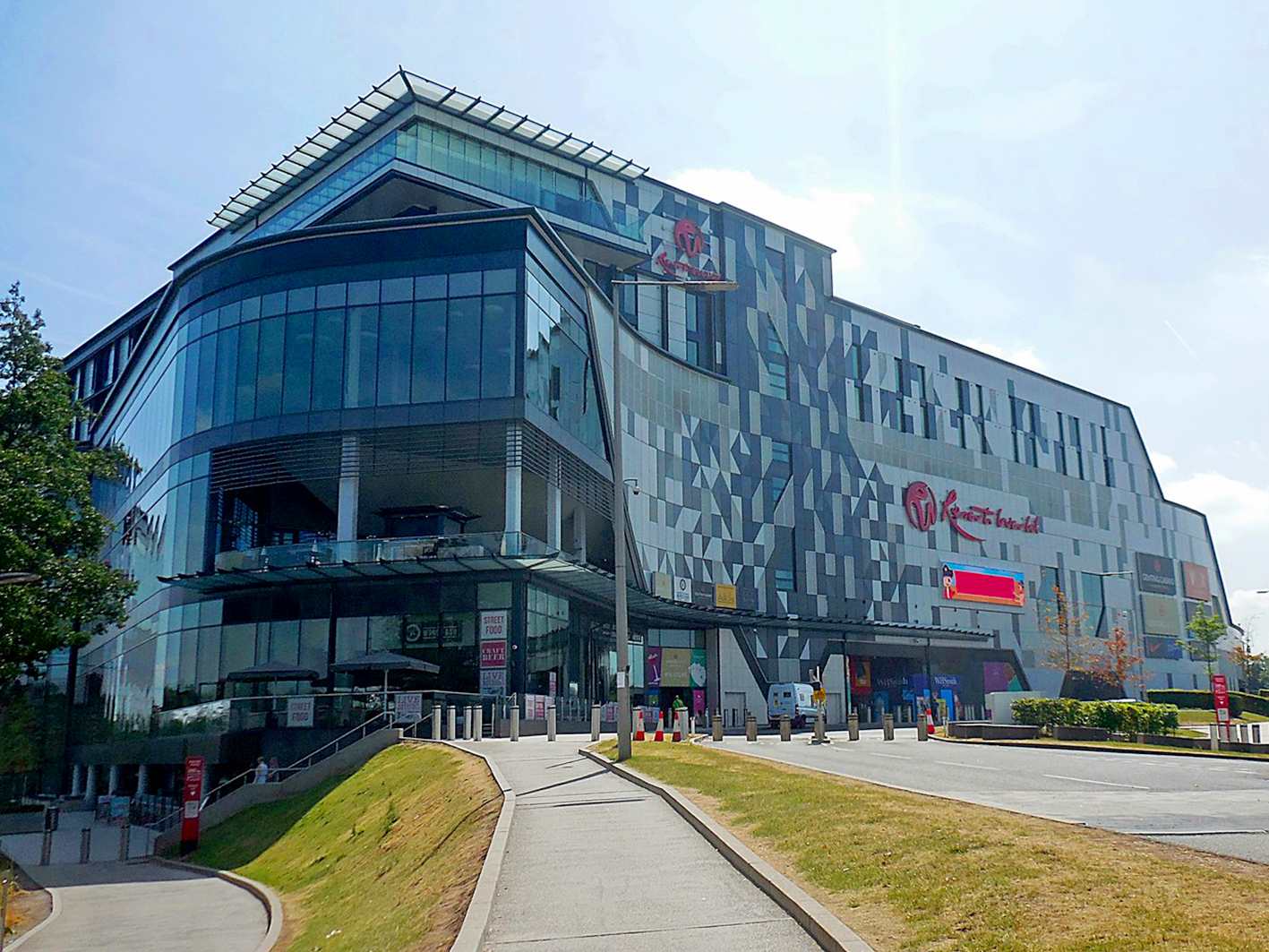 Resorts World Shopping and Leisure Complex